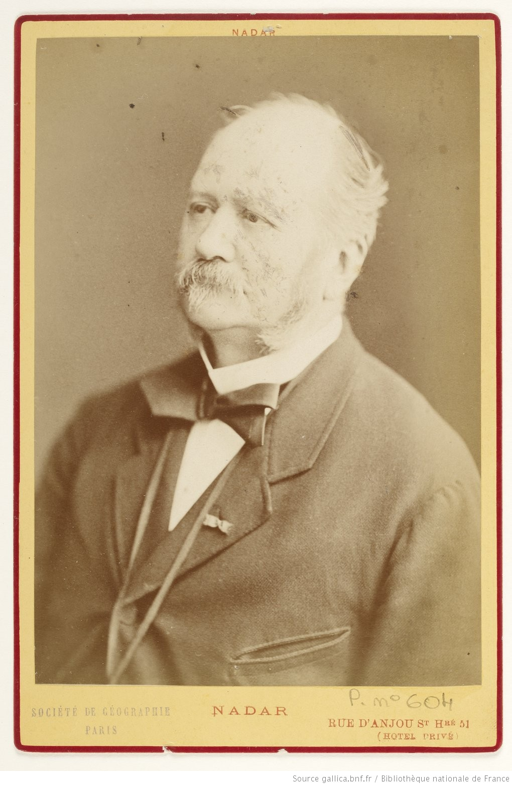 Louis Antoine Léouzon le Duc. Translated Kalevala to French